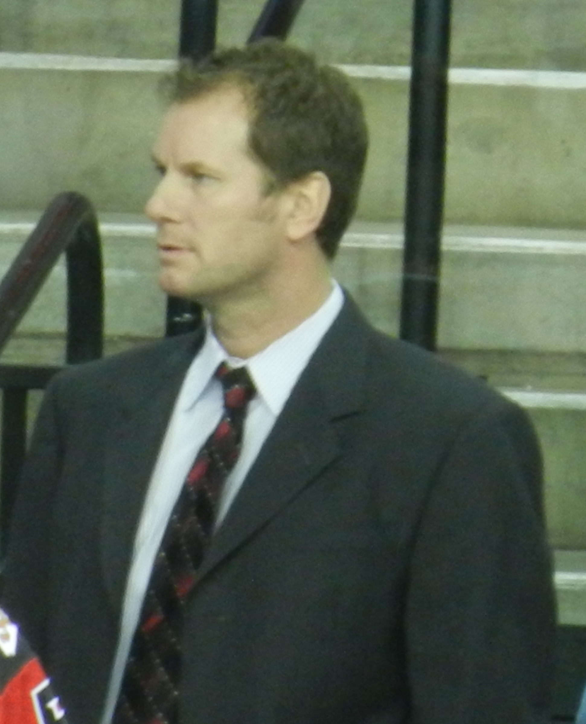 Andrew Cassels assistant coach for the Cincinnati Cyclones during the 2011-12 ECHL season